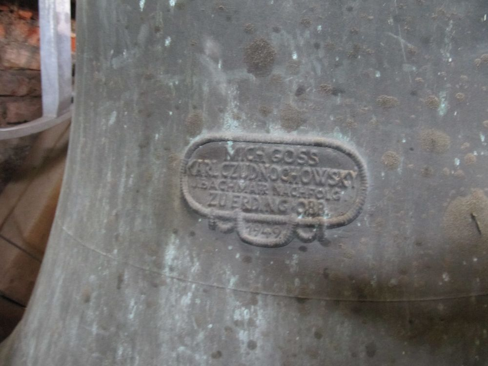 Munich-Aubing: The old village church St. Quirin at the Ubostraße. Detail of St. Georg's bell.